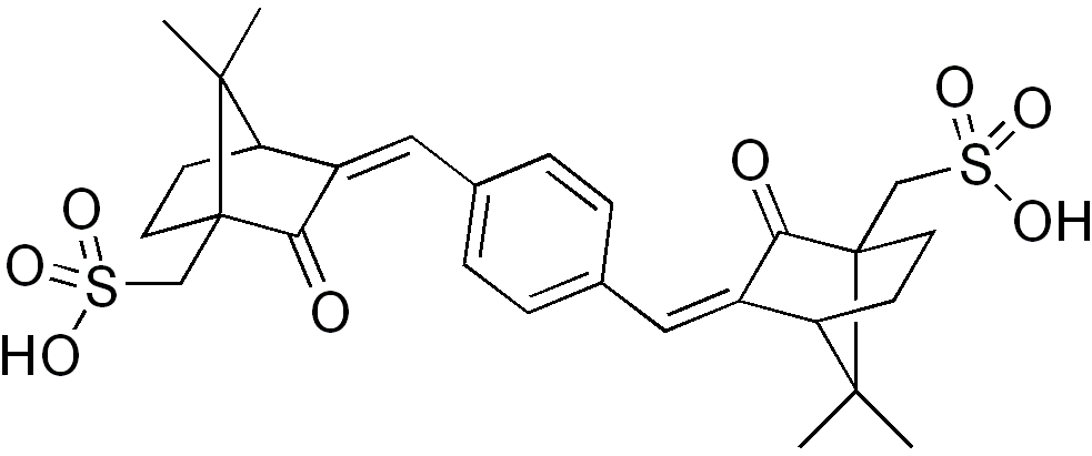 chemical structure of ecamsule (mexoryl)